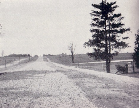 Highway 2 west of Woodstock being widened into a dual highway. A foreshadowing of Highway 403, which would come 50 years later.